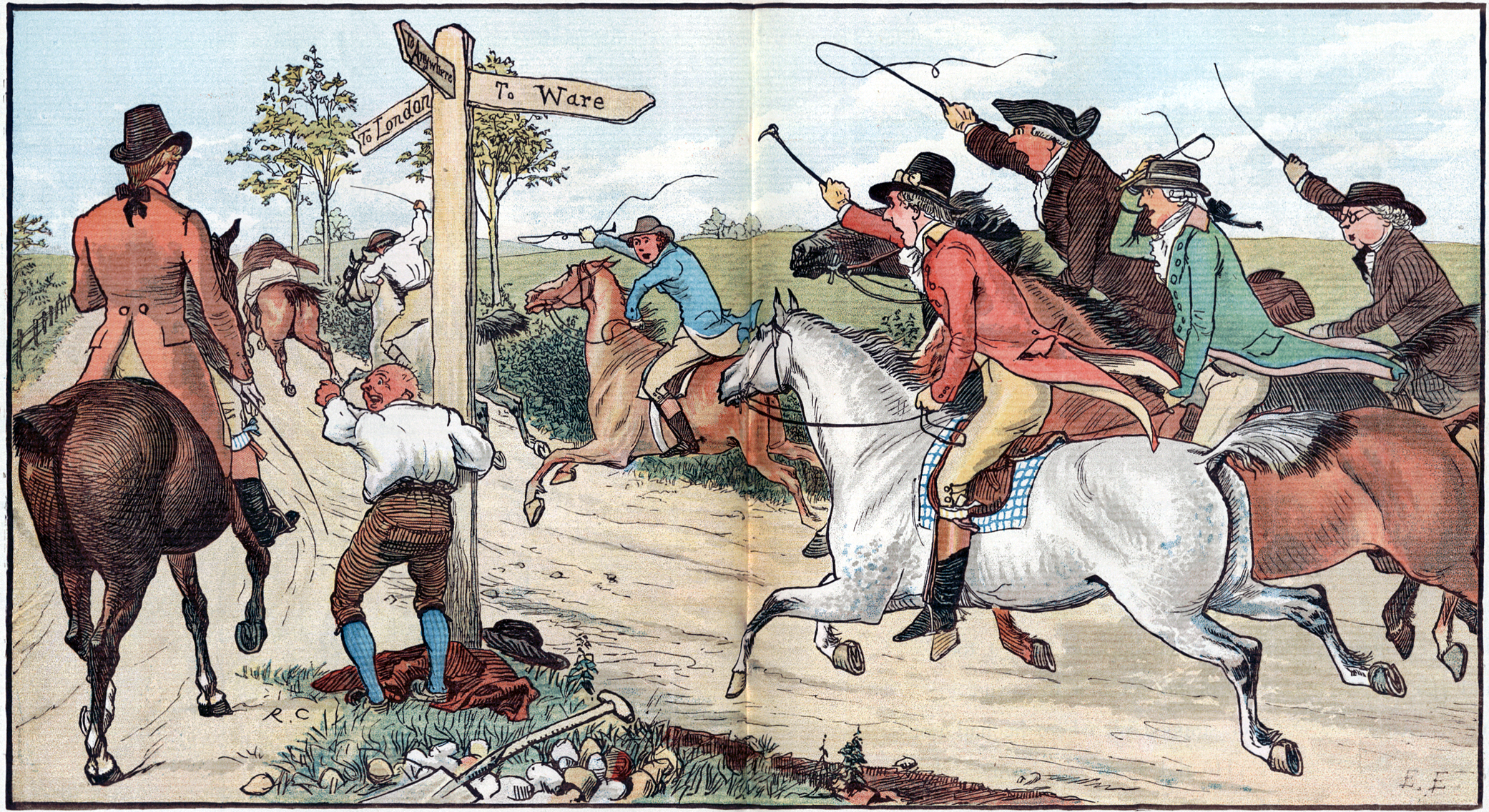 Page 0081 from The complete collection of pictures & songs by Randolph Caldecott